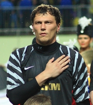 Andriy Pyatov